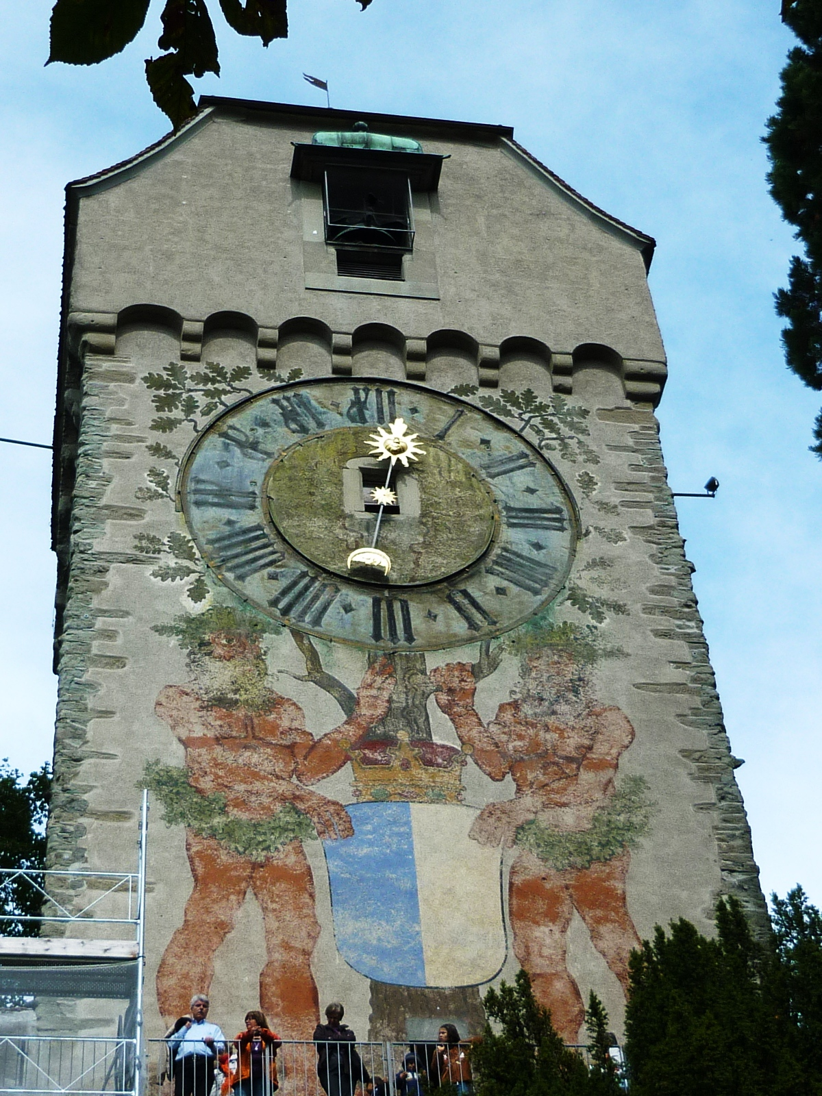 Musegg wall, clock tower, Lucerne, Switzerland